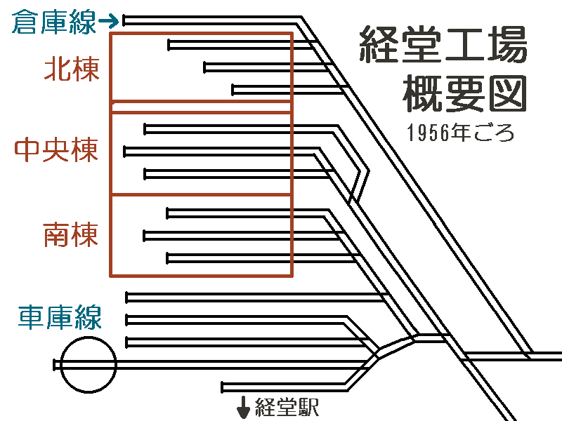 Layout of Odakyu Kyodo Depot